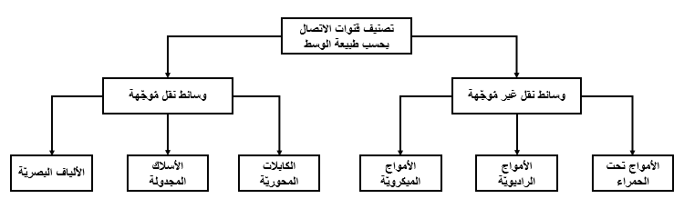 Classification of communication channels by nature of the medium.